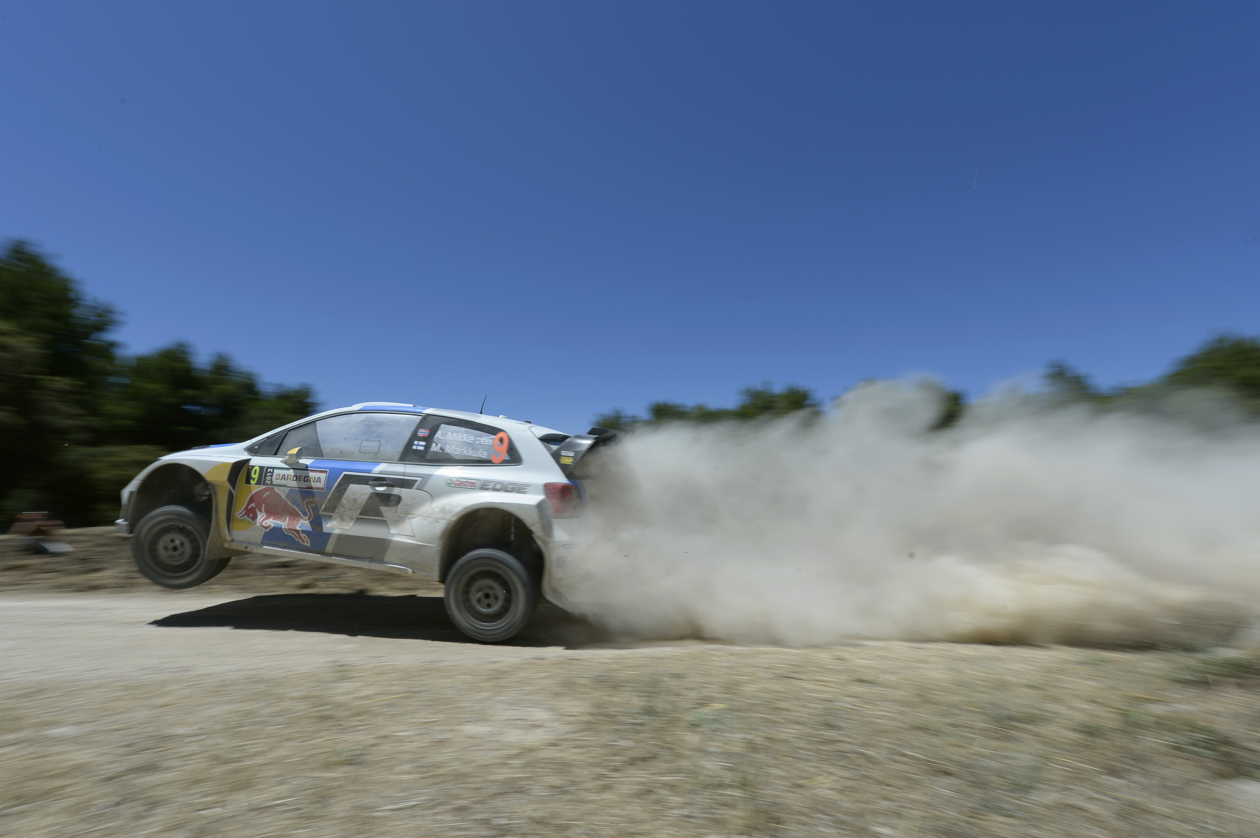 Andreas Mikkelsen (NOR) and co-driver Mikko Markkula (FIN) in their Volkswagen Polo R WRC at the 2013 Rally Italy in Sardinia.